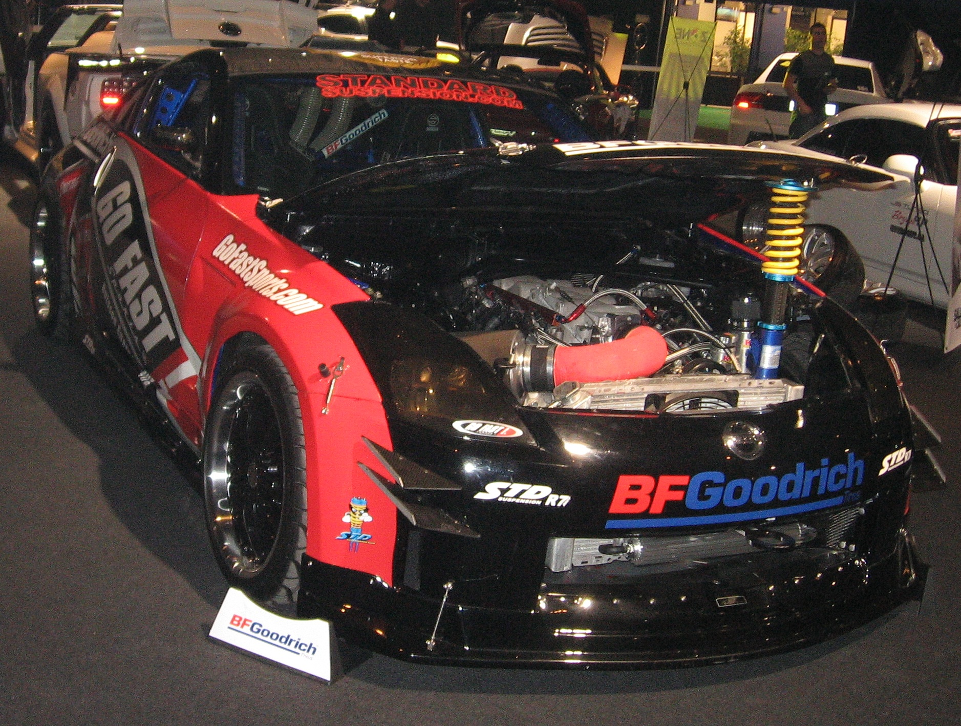 2003 Nissan 350Z photographed in Montreal, Quebec, Canada at the 2011 Montreal International Auto Show.